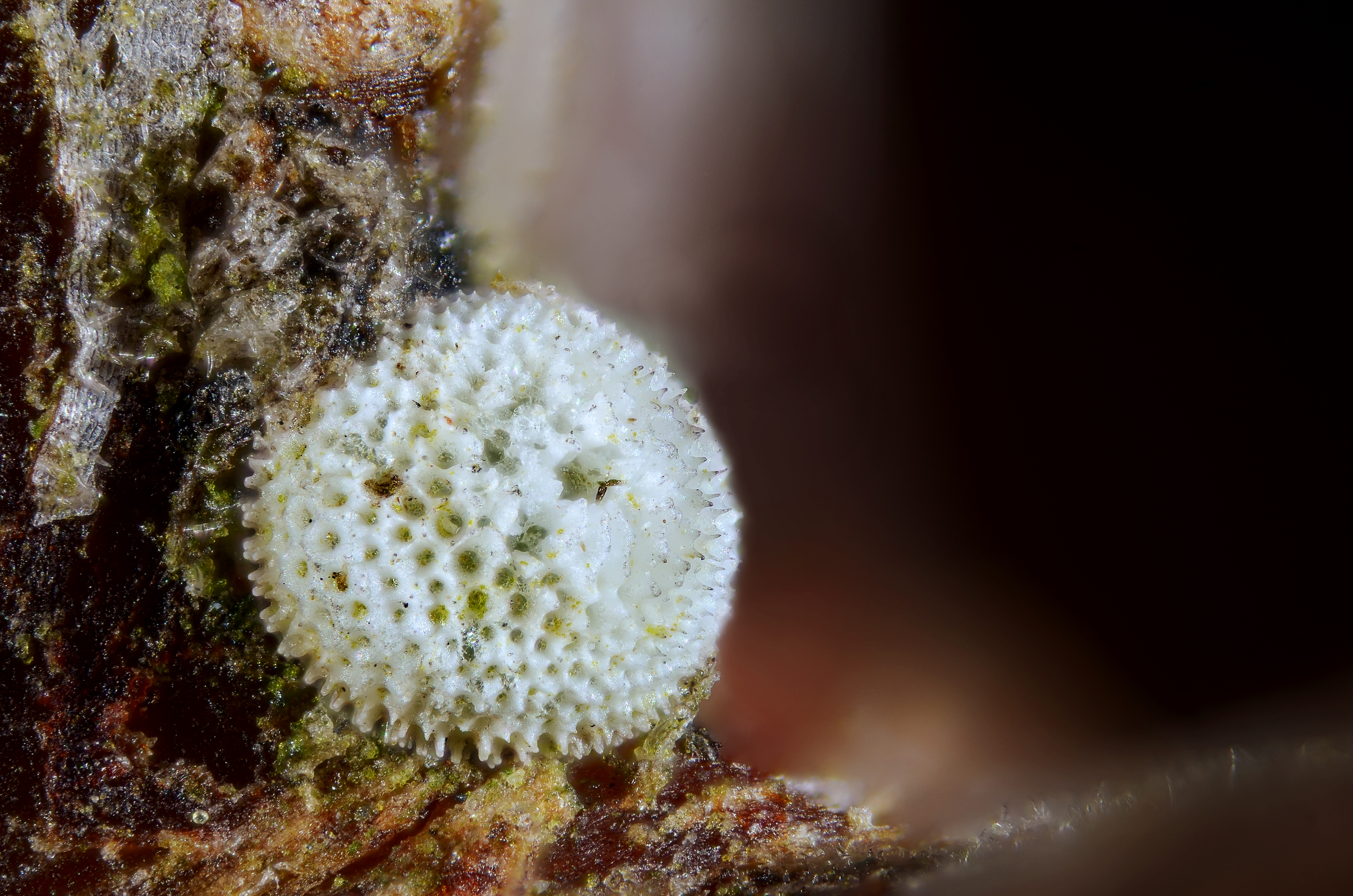 Egg of the butterfly Thecla betulae on a Prunus spinosa twig scale : egg width = 0.9 mm Technical settings : - focus stack of 56 images - microscope objective (Nikon achromatic 10x 160/0.25) on on 68mm extention tubes + 30 mm adapter